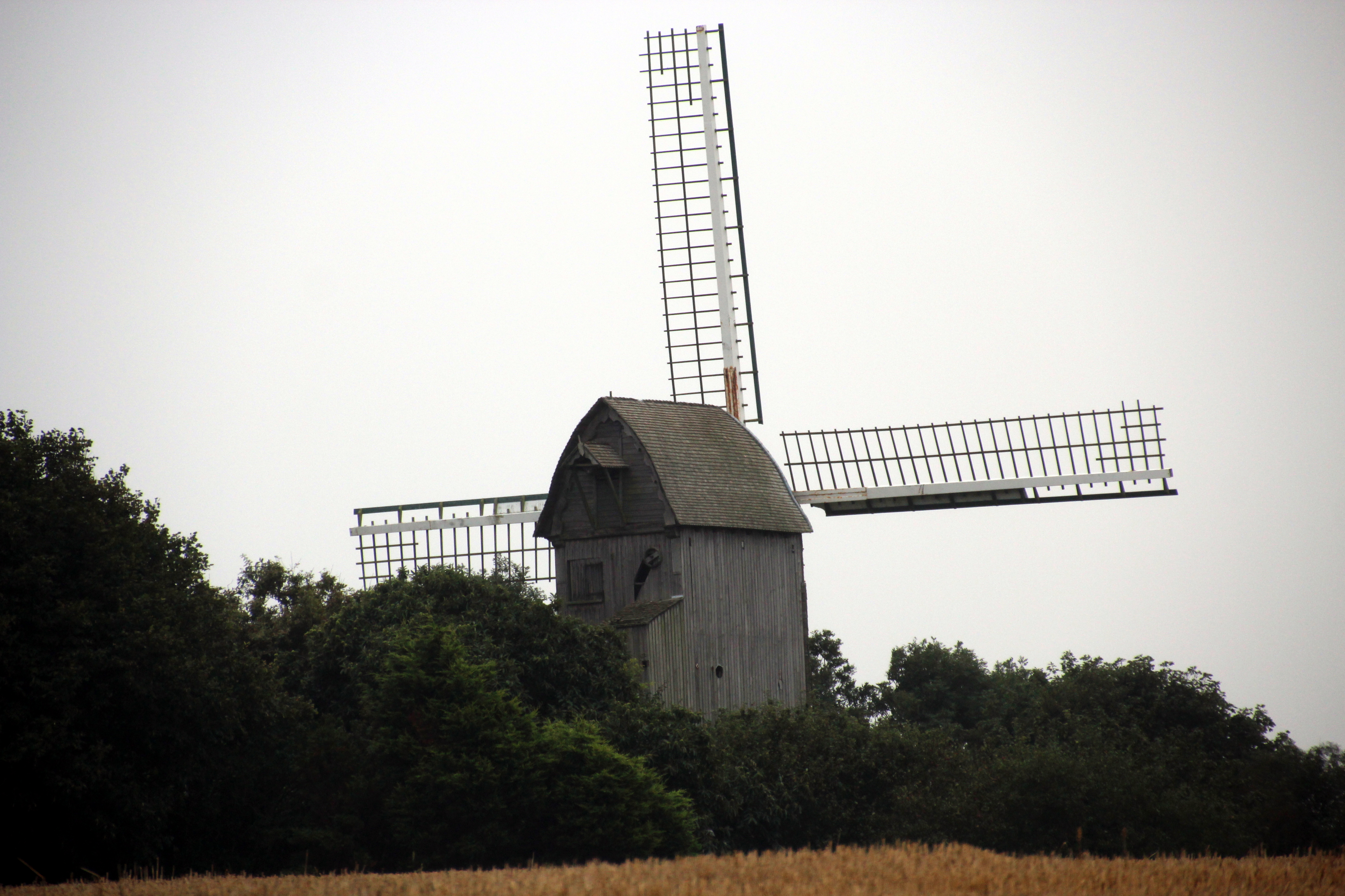 Windmill in Coquelles, France